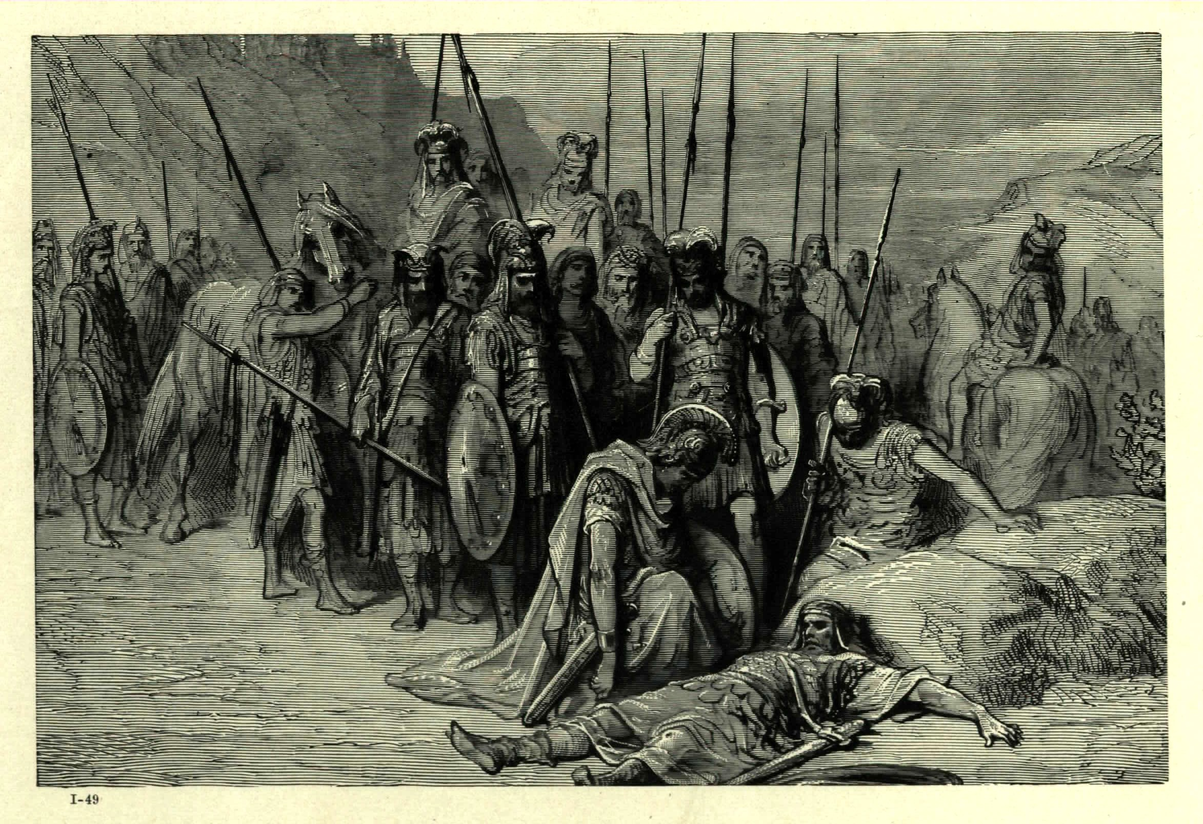 Alexander inspects the corpse of Darius